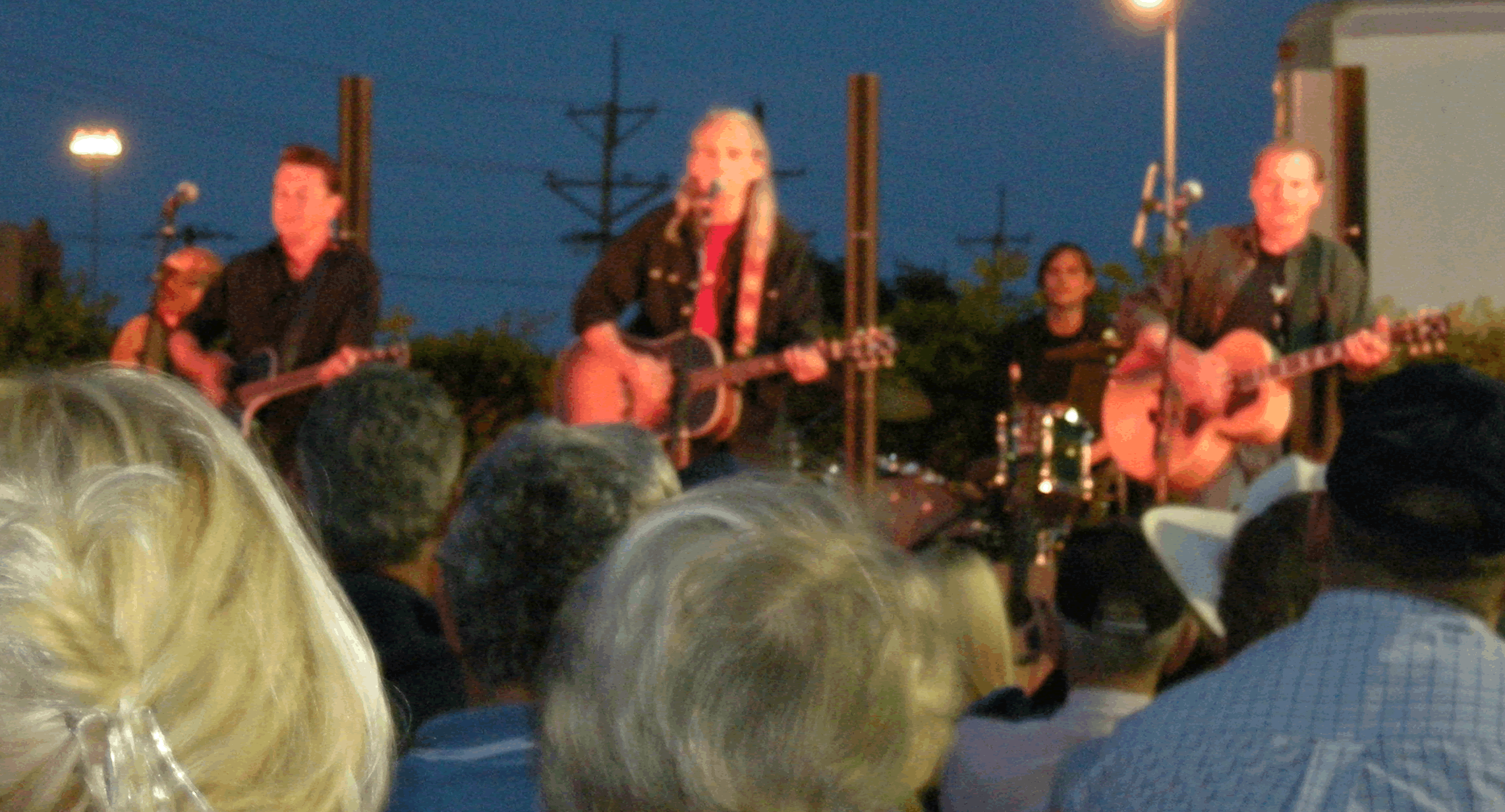 The Flatlanders playing a concert in their hometown of Lubbock on June 3rd, 2009.